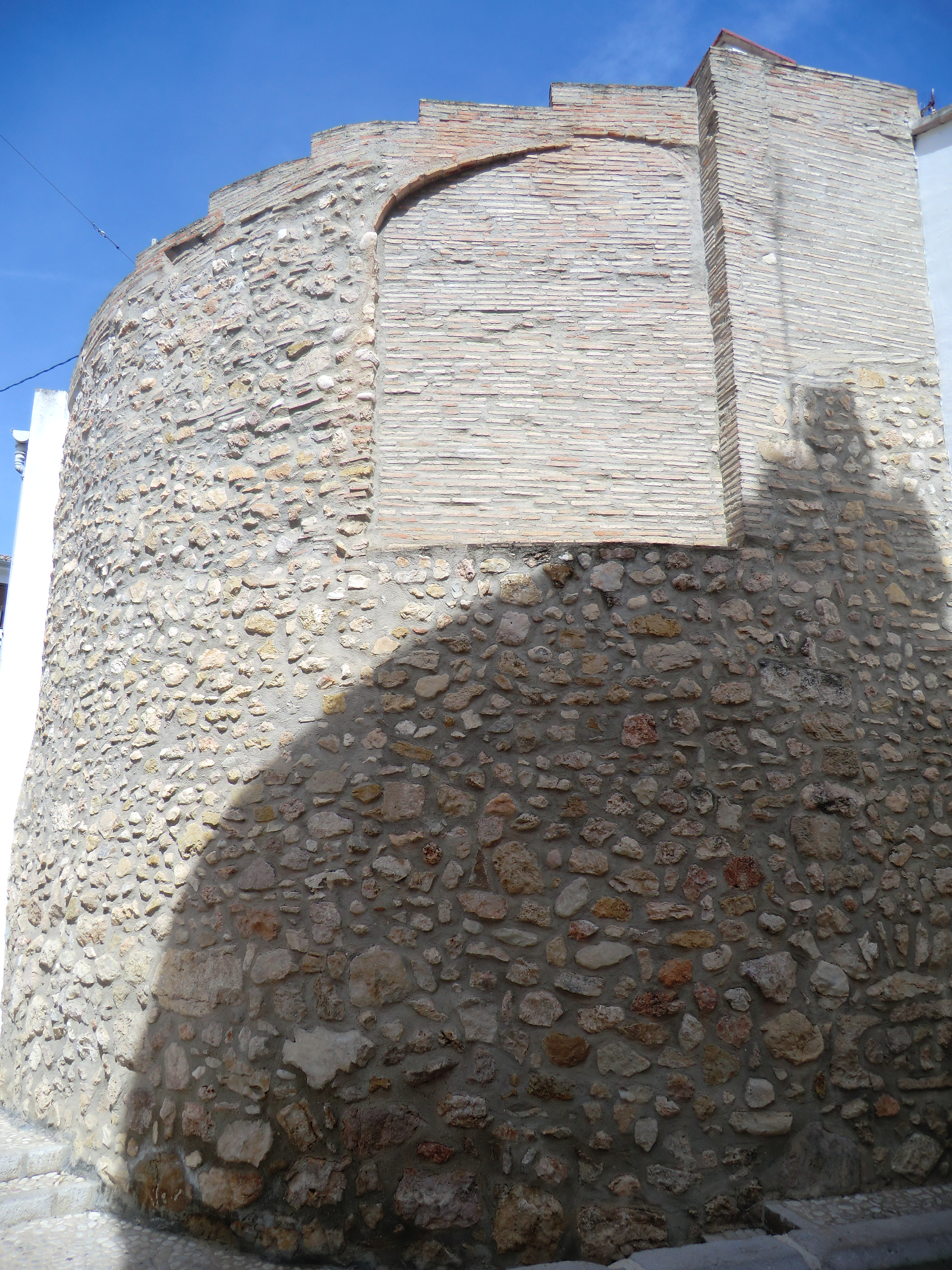 Oliva's tower